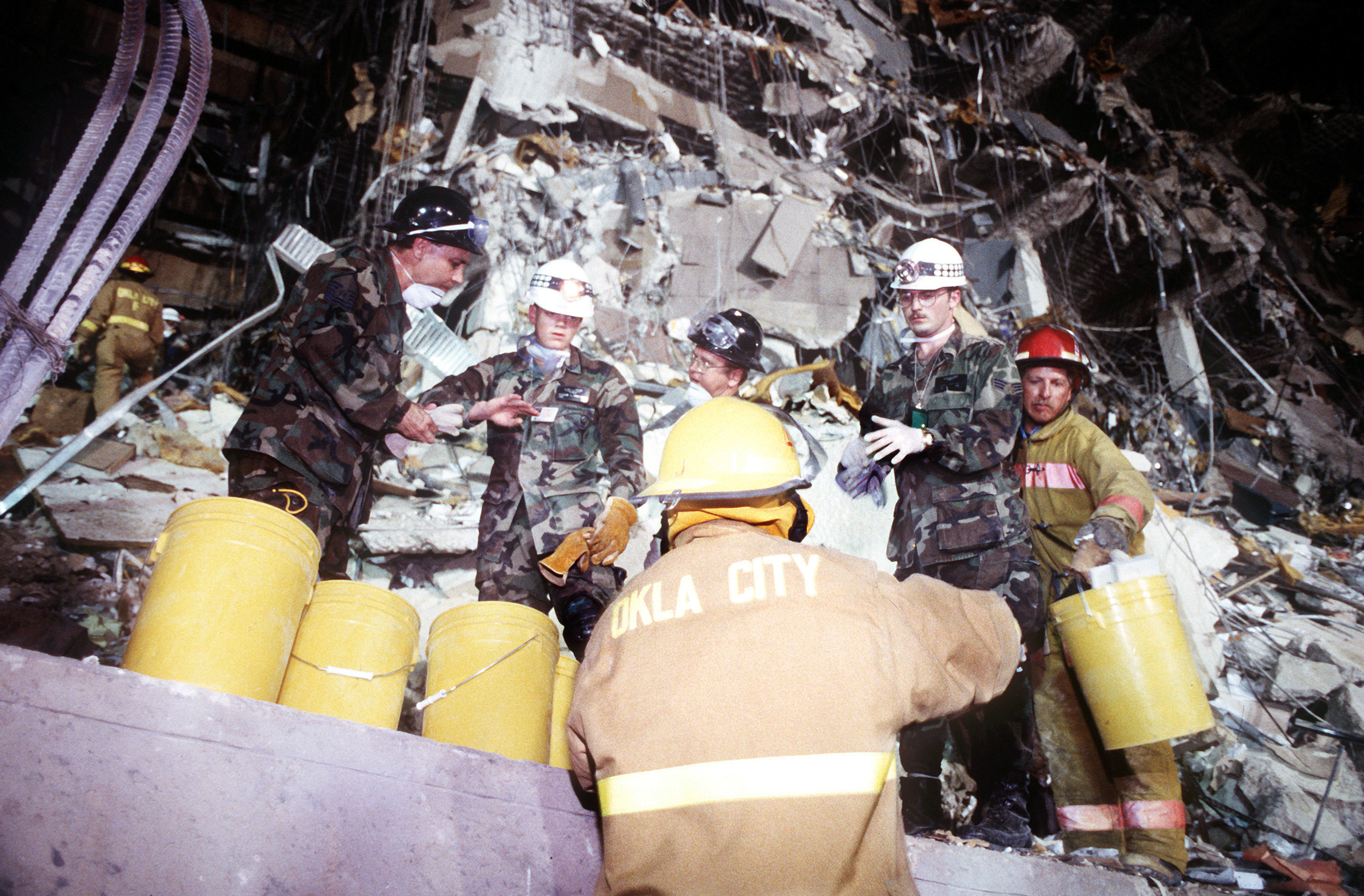 U.S. Air Force personnel from Tinker Air Force Base work alongside civilian firefighters to remove rubble from the explosion site of the Federal Building in Oklahoma City. The U.S. Air Force is providing around-the-clock support of personnel, equipment, and supplies during rescue and relief efforts.